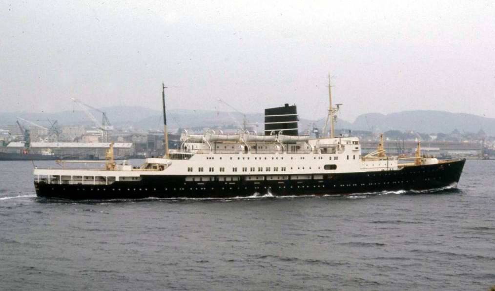 TS Leda - Newcastle - Bergen Ferry photographed passing Haugesund, Norway in October 1973 by Gary McDanielson.